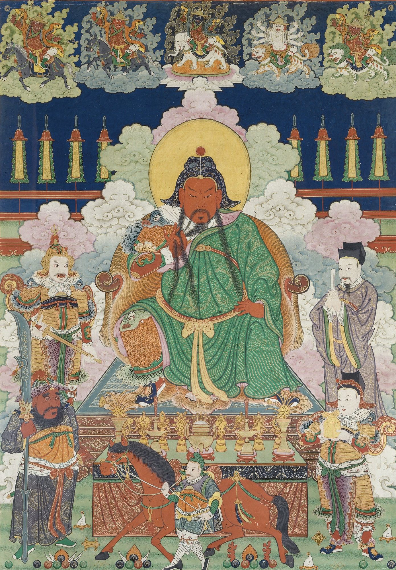 RARE THANGKA IMPÉRIAL DE GUAN YU, CHINE, DYNASTIE QING, ÉPOQUE QIANLONG (1736-1795)